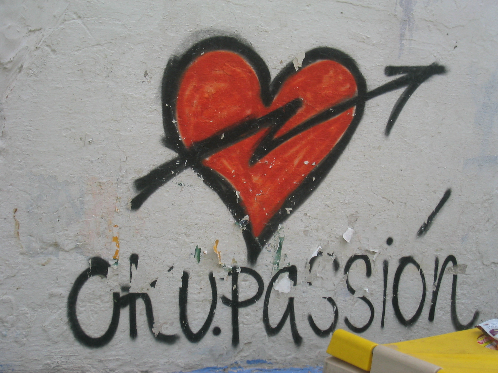 Okupas proud statement in Sevilla, Spain (play on words based on Okupa + passion mix)